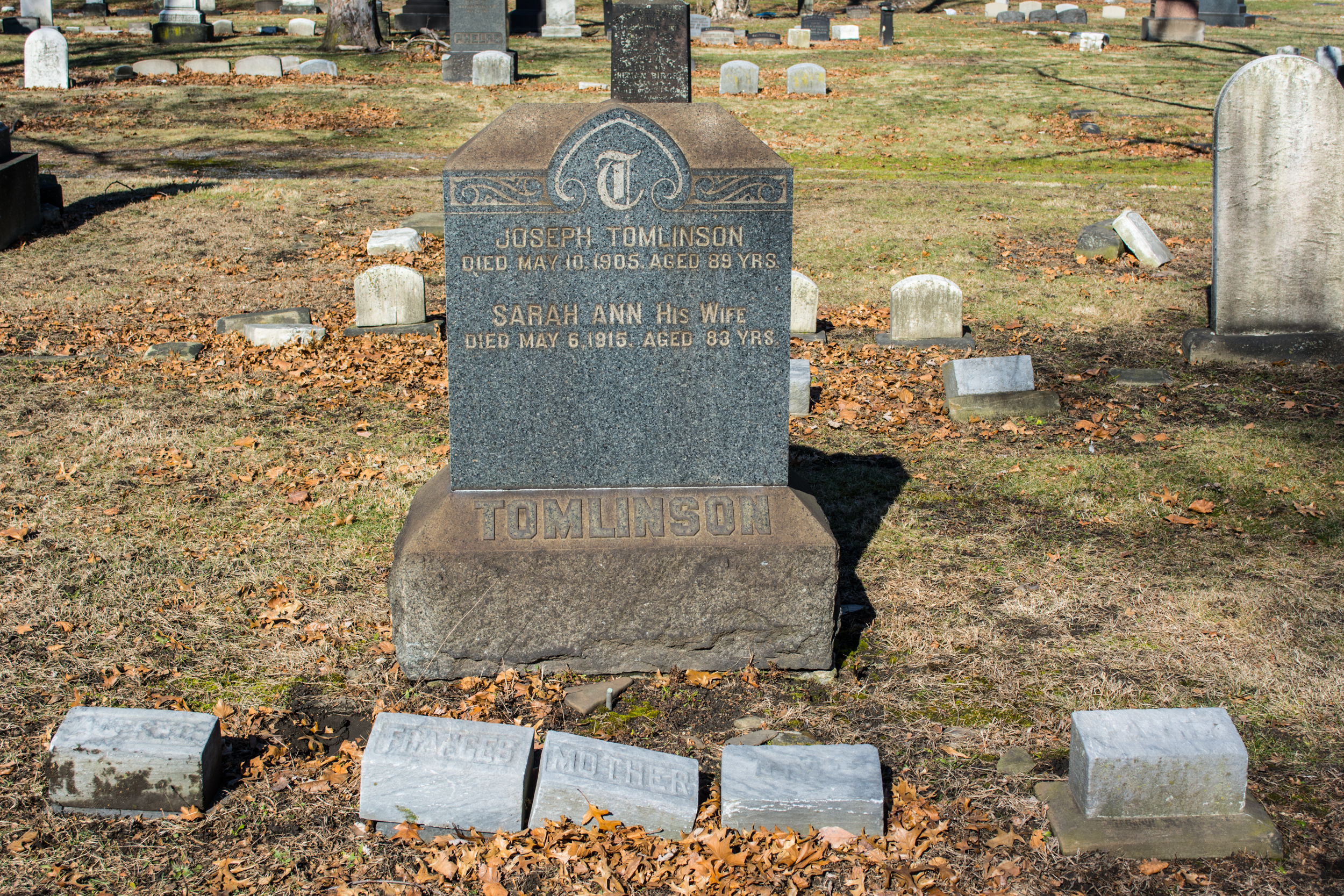 Grave of Joseph Tomlinson, British-born Canadian-American bridge and civil engineer, at Woodland Cemetery in Cleveland, Ohio, in the United States.